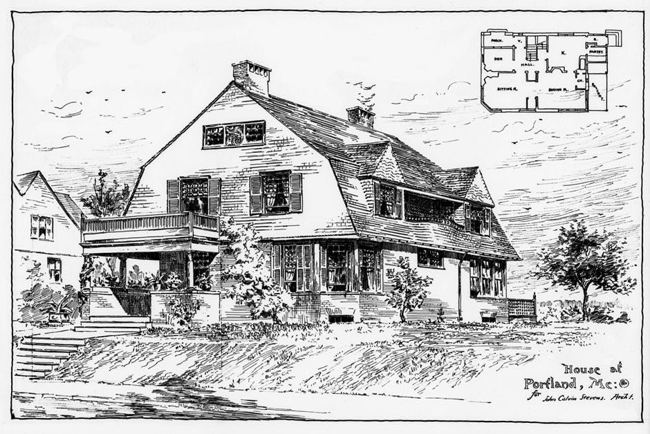 Perspective drawing of John Calvin Stevens House, 52 Bowdoin Street, Portland, Maine (1883-84), John Calvin Stevens, architect. Published in: Albert Winslow Cobb and John Calvin Stevens, Examples of American Domestic Architecture (1889), plate VII.